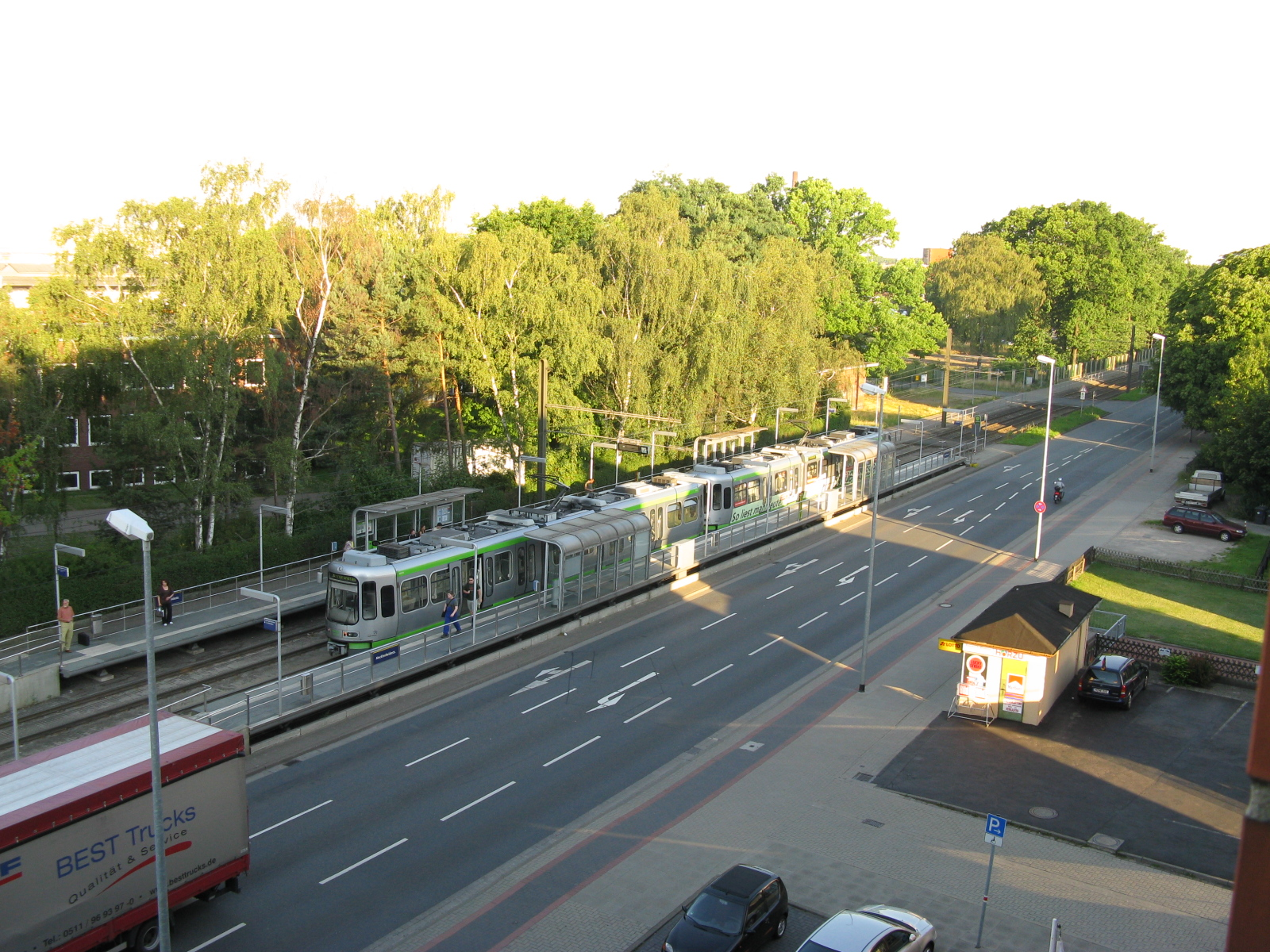 Tram at stop Mecklenheidestraße in Hanover, Lower Saxony, Germany